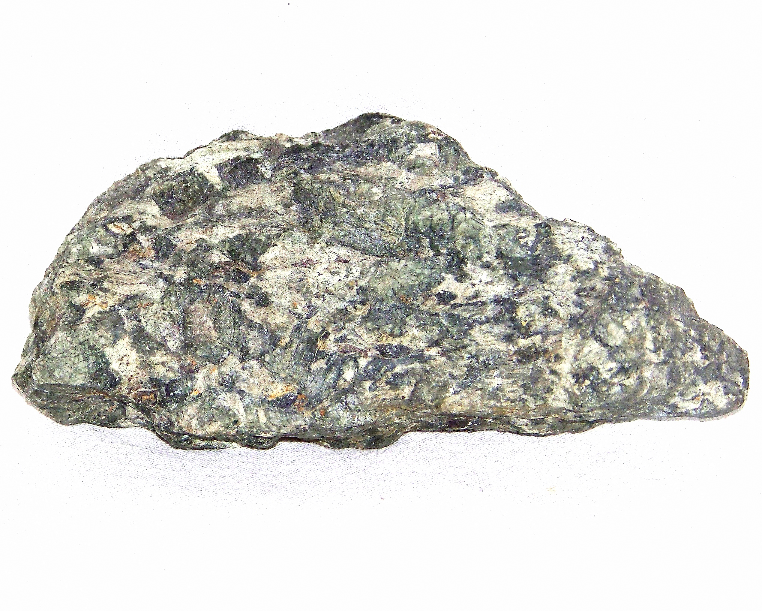 Gabbro from Dzikowice, Lower Silesia, Poland.